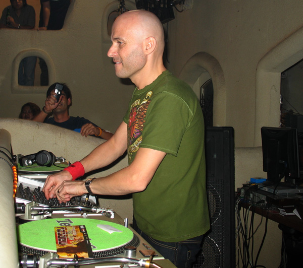 Marco V at the decks in Club Astra, Bangkok on 06 January 2007. Snap taken by me, resized for web.